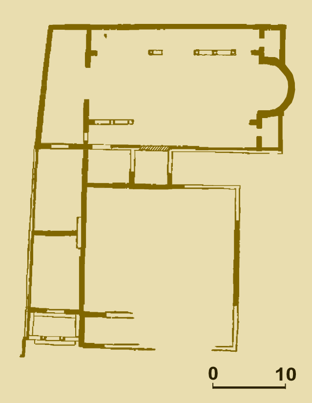 Old Christian "Basilica A" in Doclea (south-eastern part). Discovered in late nineteenth century by the English team led by John Arthur Ruskin Munro (1864 - 1944).Srpski (latinica): Starohrišćanska "Bazilika A" u Duklji (jugioistočni dio). Otkrivena krajem XIX vijeka od engleske ekipe na čelu sa Munroom (John Arthur Ruskin Munro) .